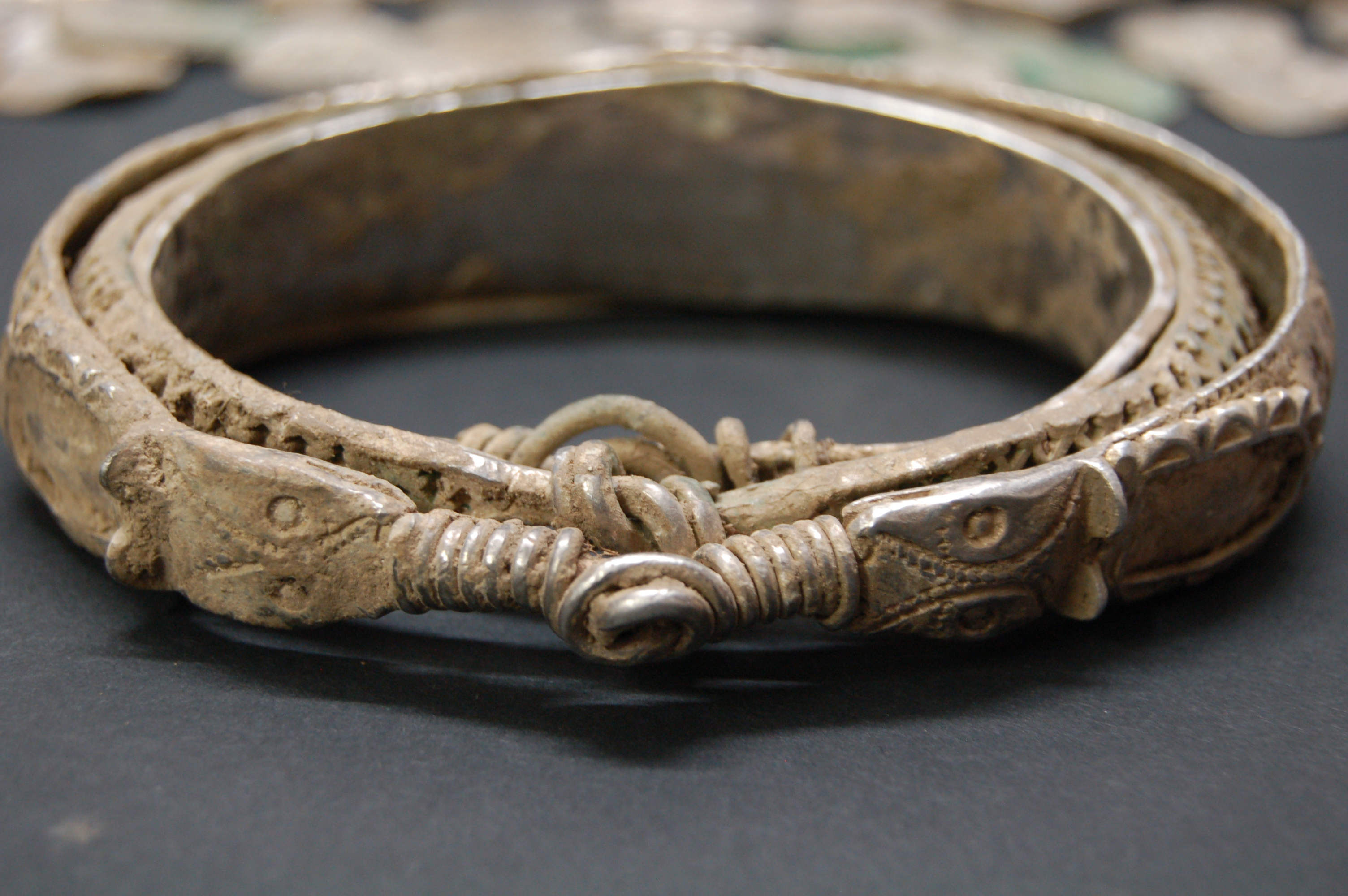 Nested bracelet from the Silverdale Hoard. Image by Ian Richardson